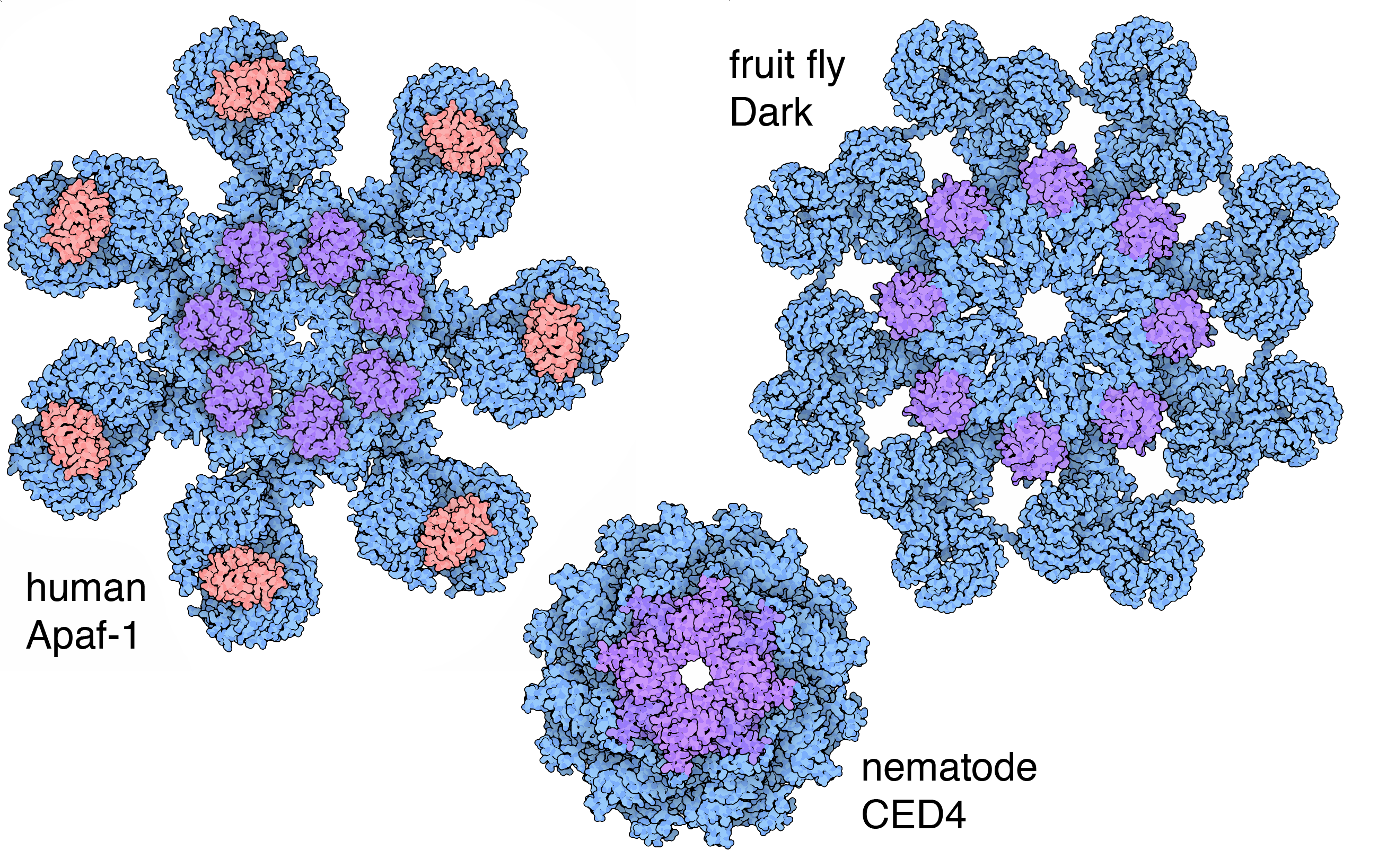 Space-fill drawing comparing the structures of the apoptosome molecular assemblies from human (Apaf-1), fruit fly (Dark), and nematode (CED4). The apoptosome subunits (shown in blue and purple) assemble when needed, to communicate between the system that signals cell death, such as cytochrome C for humans (in orange), to the system that disassembles the cell, such as the caspase proteases for humans, which are activated by binding to the CARD domains of the apoptosome (in purple). Image drawn by David Goodsell, from PDB files 3J2T, 3IZ8, and 3LQQ.